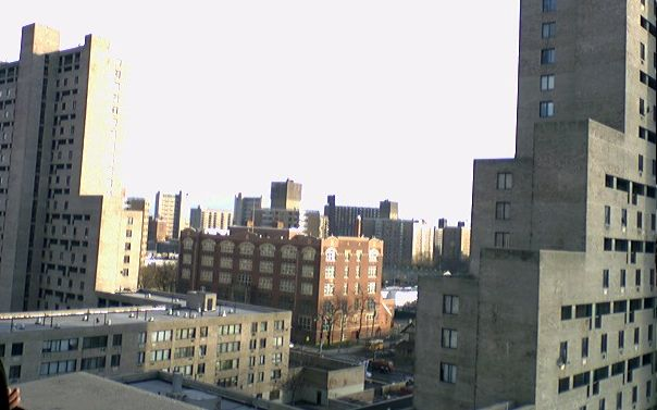 COney Island panorama, taken from the westmost point